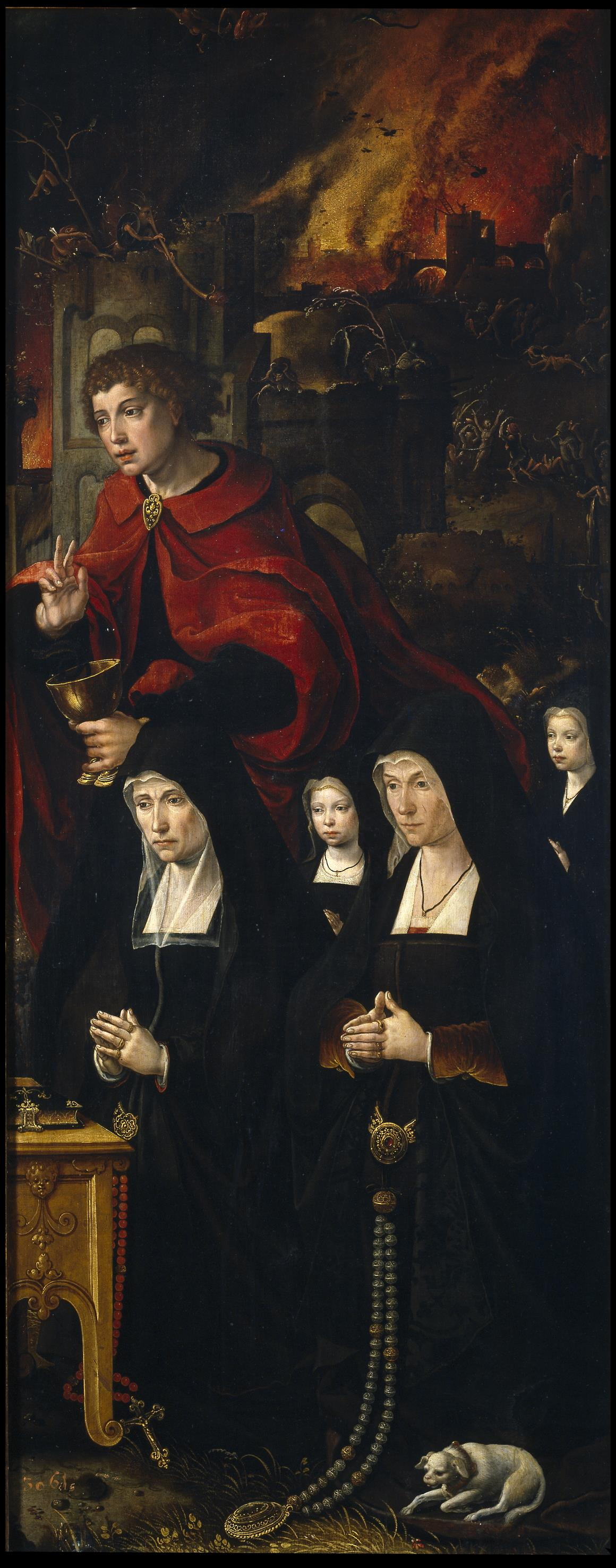 Saint John the Evangelist with two ladies and two praying girls / Saint Adrian (verso).label QS:Len,"Saint John the Evangelist with two ladies and two praying girls / Saint Adrian (verso)."label QS:Les,"San Juan Evangelista con dos damas y dos niñas orantes / San Adrián (reverso)."